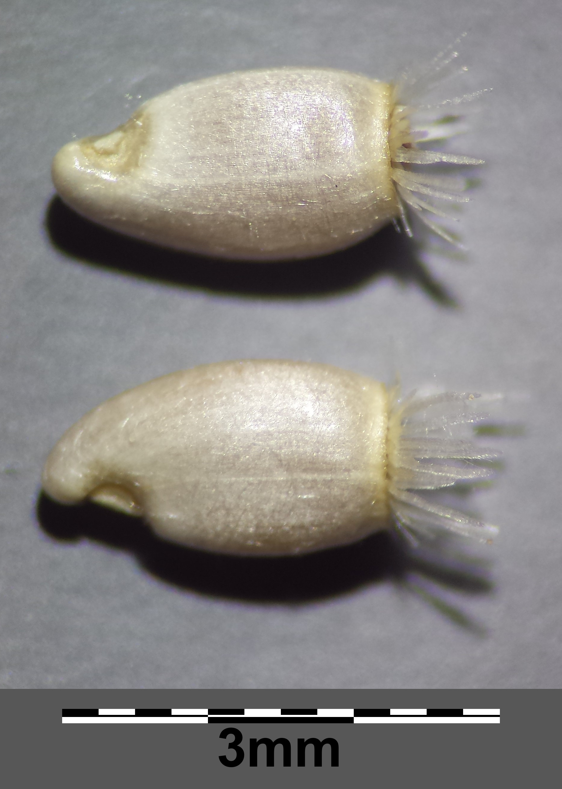 Achenes with short pappus Taxonym: Centaurea diffusa ss Fischer et al. EfÖLS 2008 ISBN 978-3-85474-187-9 Location: sand pit 0,4 south-eastern of Schleinbach, district Mistelbach, Lower Austria - ca. 270 m a.s.l. Habitat: extraction face of a sand pit